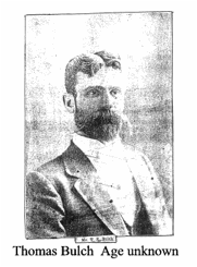 Photographic portrait of Thomas Bulch, Australian brass band composer